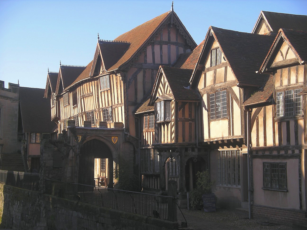 en:56 High Street, Warwick, a Grade I listed building adjacent to Lord Leycester Hospital Taken with PentaxOptio 555 digital camera. 1/250s @f3.8